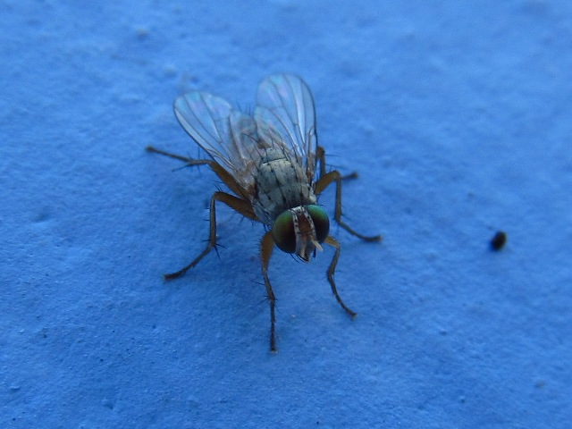 Macro shot of a house fly